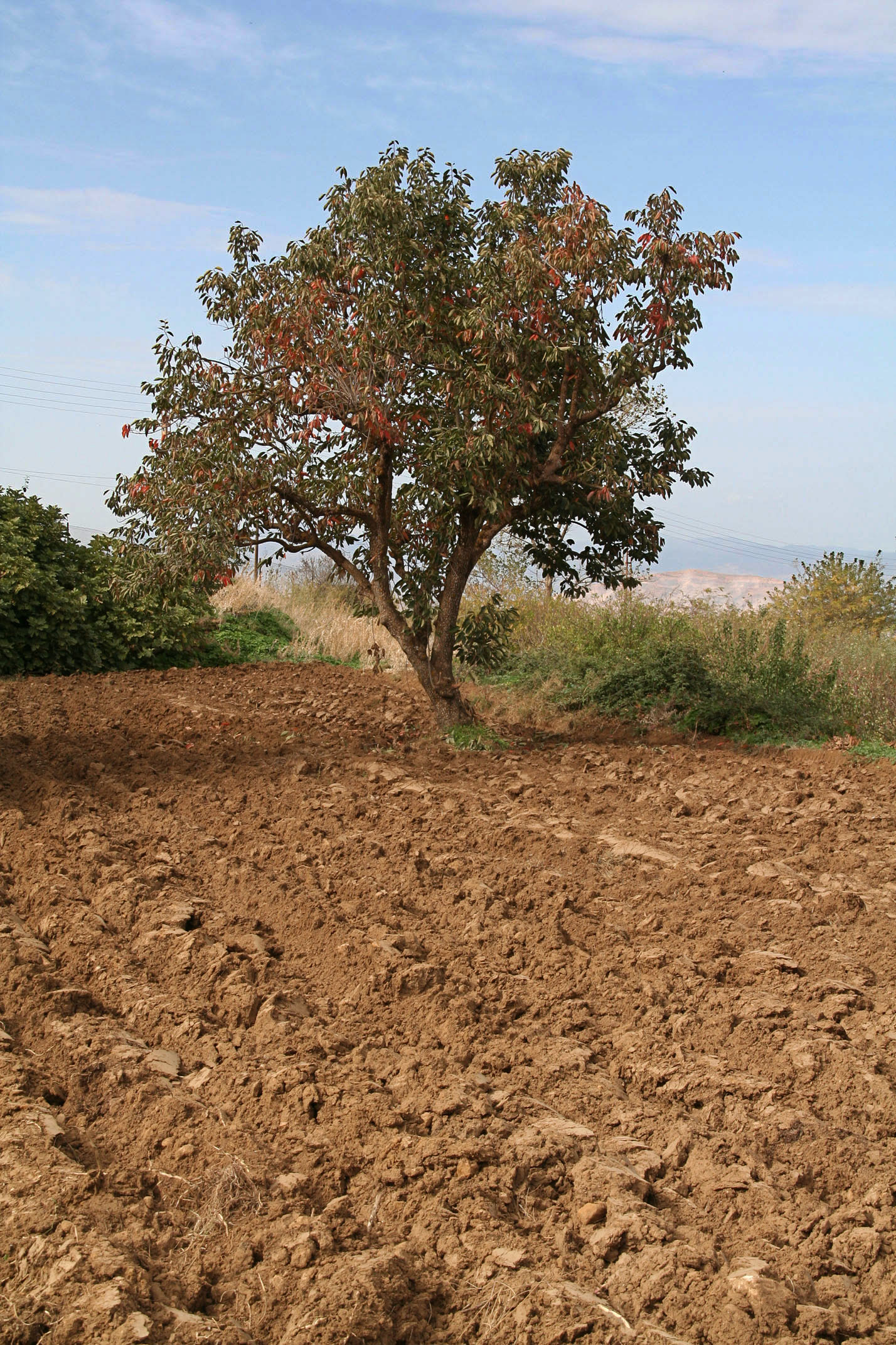 Persimmon tree in the fields of the monastery of Tibirine, Algeria.